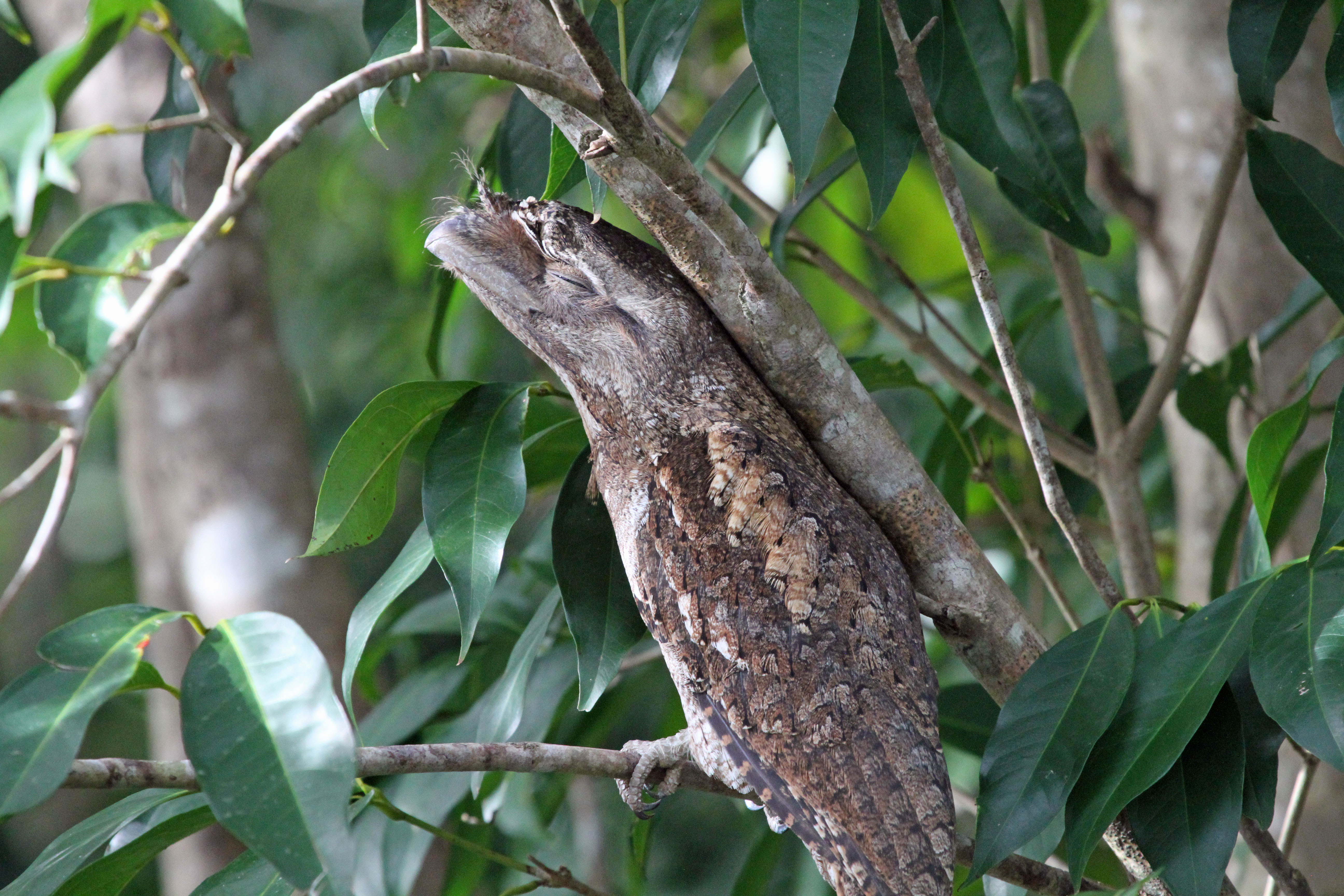 Papuan Frogmouth